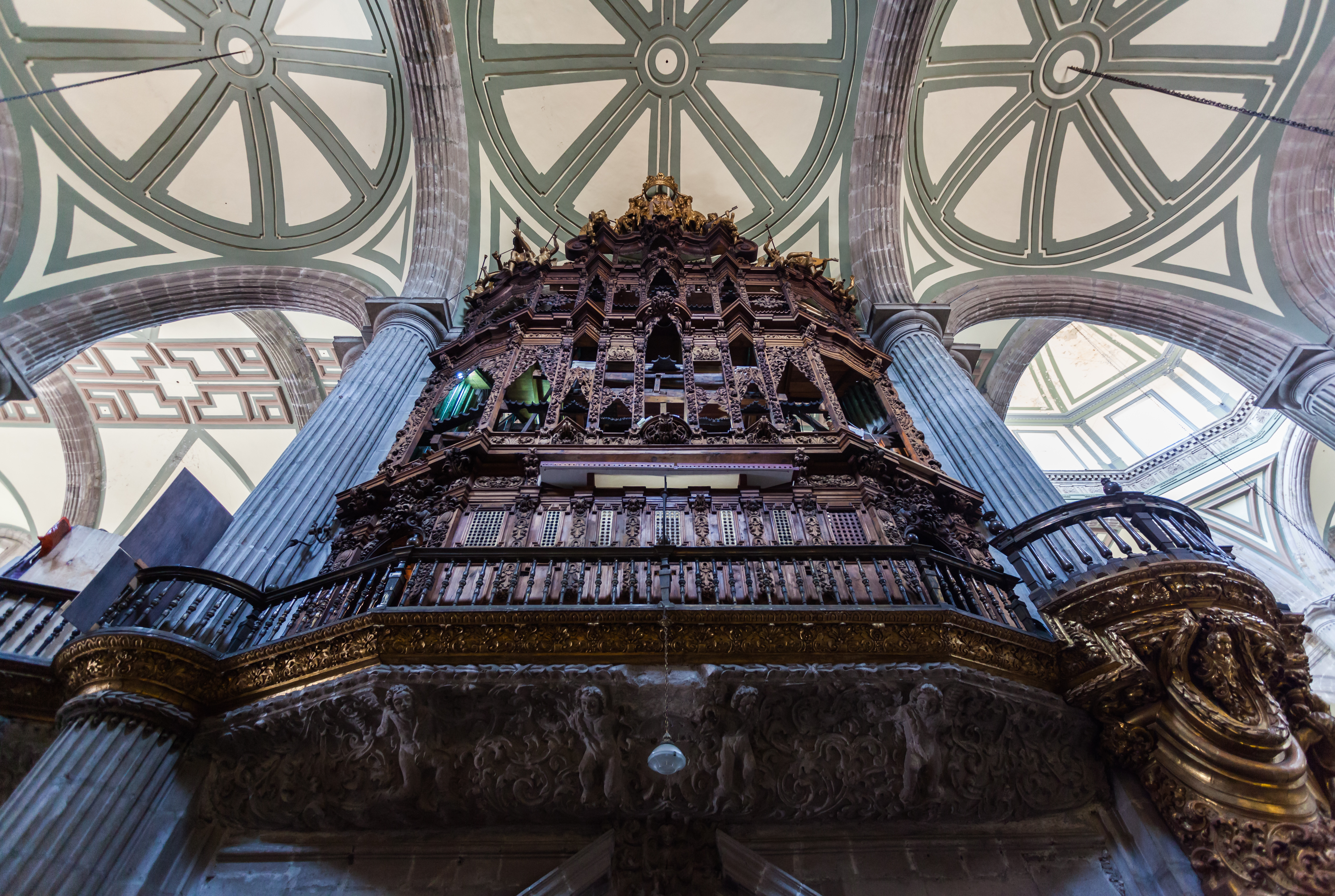 Metropolitan Cathedral, Mexico City, México